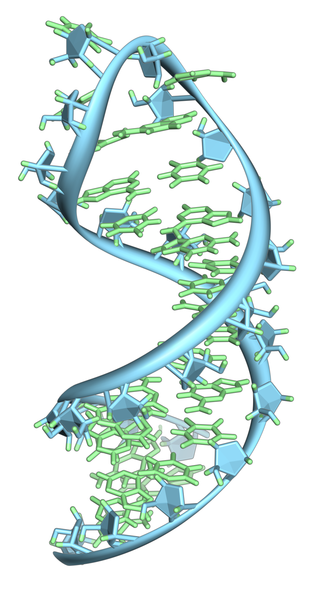 A hairpin loop from a pre-mRNA. Notice its bases (light green) and backbone (sky blue). NMR structure of the central region of the human GluR-B R/G pre-mRNA, from the protein data bank ID 1ysv. Taken from PDB ids 1ysv model 1 imaged using UCSF Chimera.